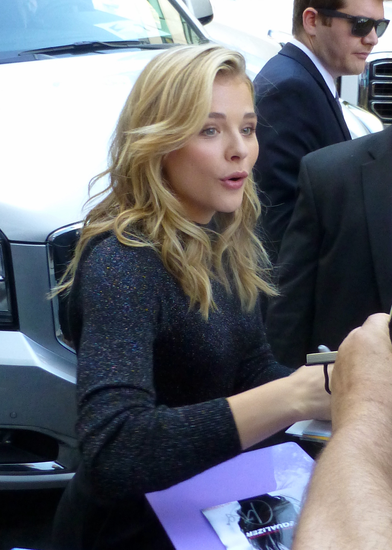 Chloe Grace Moretz at the press conference of The Equalizer, 2014 Toronto Film Festival